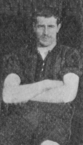 Ralph McElhaney while at Spurs 1897